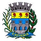 Brasão de Catiguá